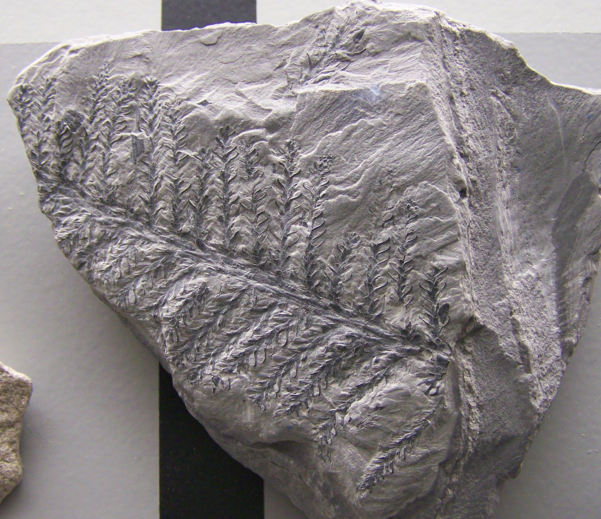 Fossil plant species Walchia piniformis, from the Lower Permian of the Saar-Nahe basin, Nonnweiler, Saarland, Germany. Black bar in the background is about 2 cm thick. Naturhistorisches Museum, Bern, Switzerland.